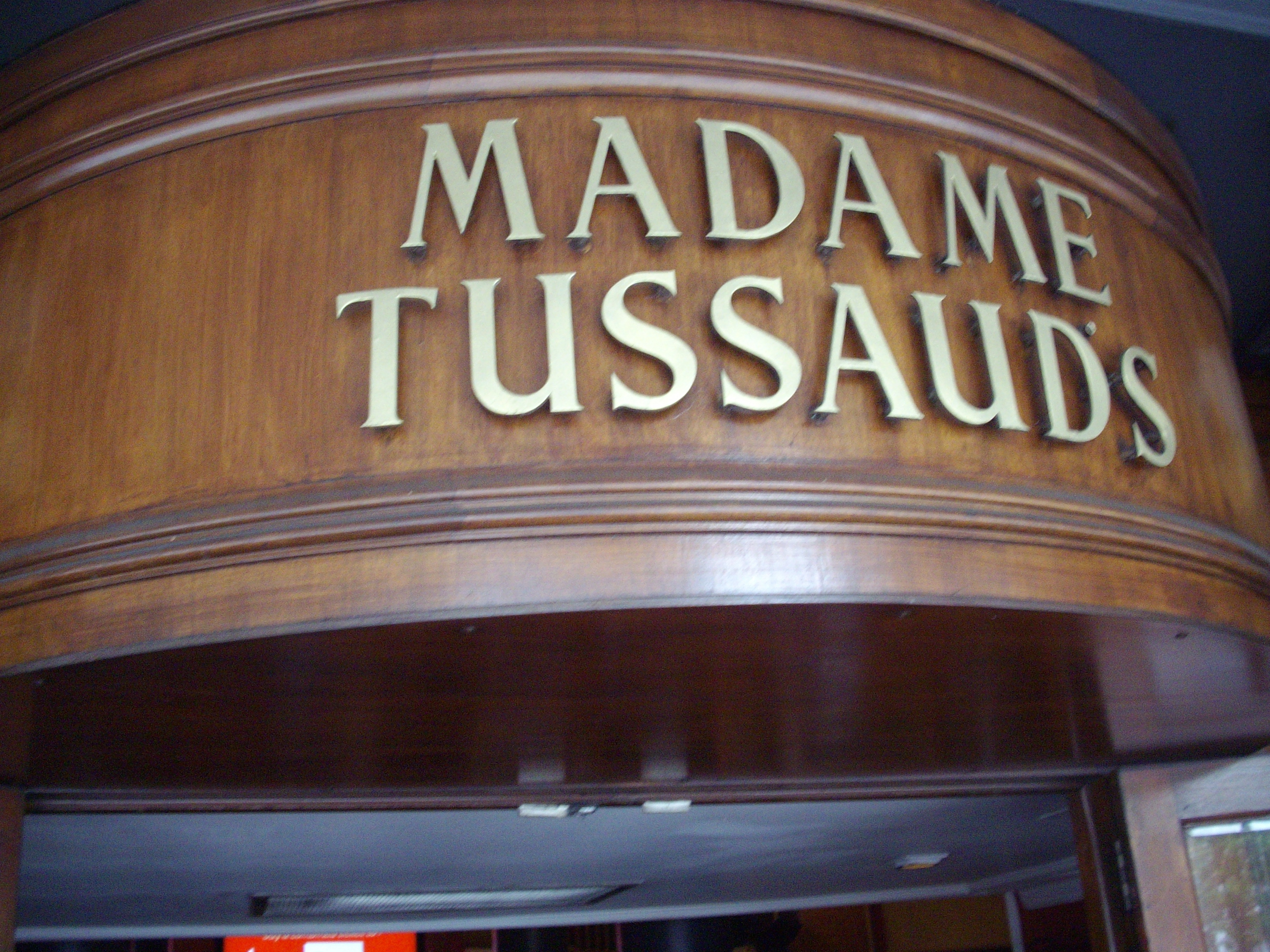 Entrance to Madame tussauds museum in London.